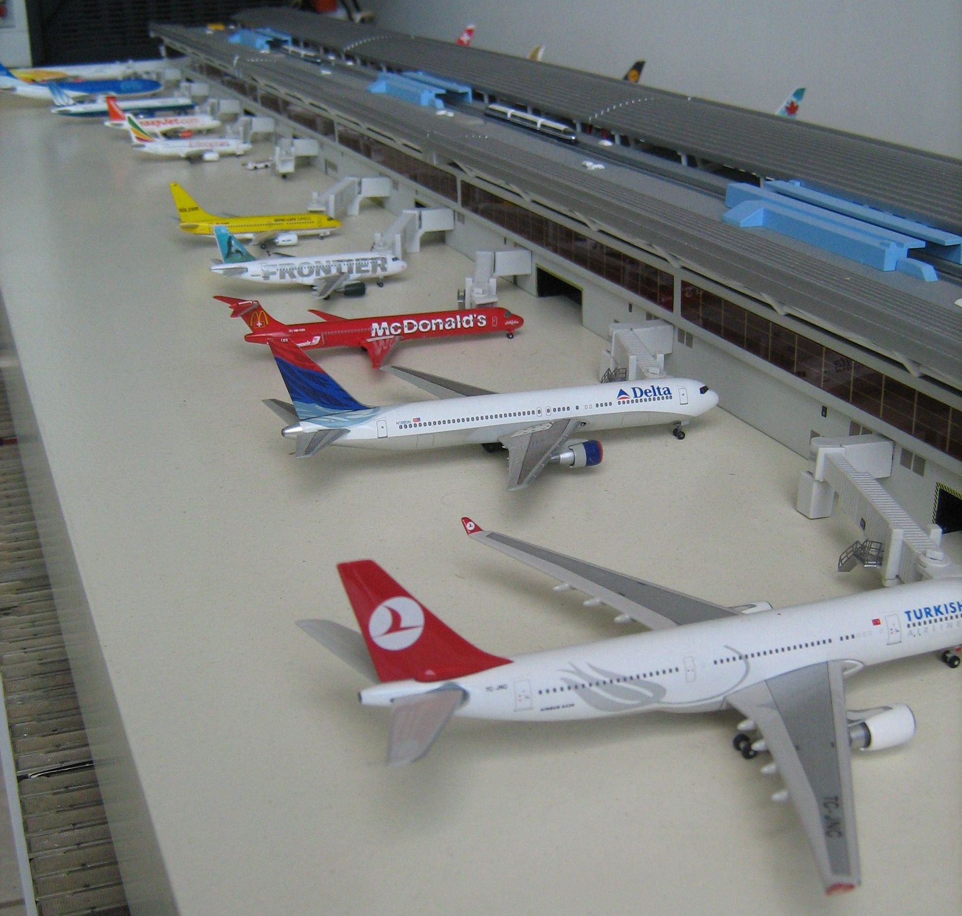 My own airport